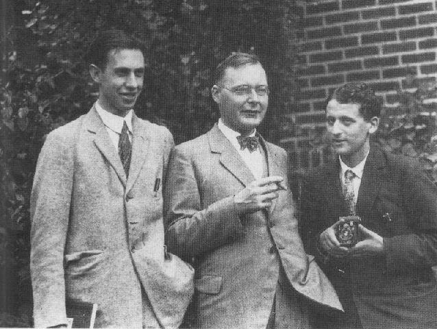 George Uhlenbeck, Hendrik Kramers, and Samuel Goudsmit around 1928 in Ann Arbor. Uhlenbeck and Goudsmit proposed the idea of electron spins three years earlier when they were studying in Leiden with Paul Ehrenfest. George Eugene Uhlenbeck (* 6. Dezember 1900 in Batavia, Indonesien; † 31. Oktober 1988 in Boulder, USA), Hendrik Anthony Kramers, (* 17. Dezember 1894 in Rotterdam; † 24. April 1952 in Oegstgeest, Niederlande) Samuel Abraham Goudschmidt (* 11. Juli 1902 in Den Haag, Niederlande; † 4. Dezember 1978 in Reno, Nevada, USA)